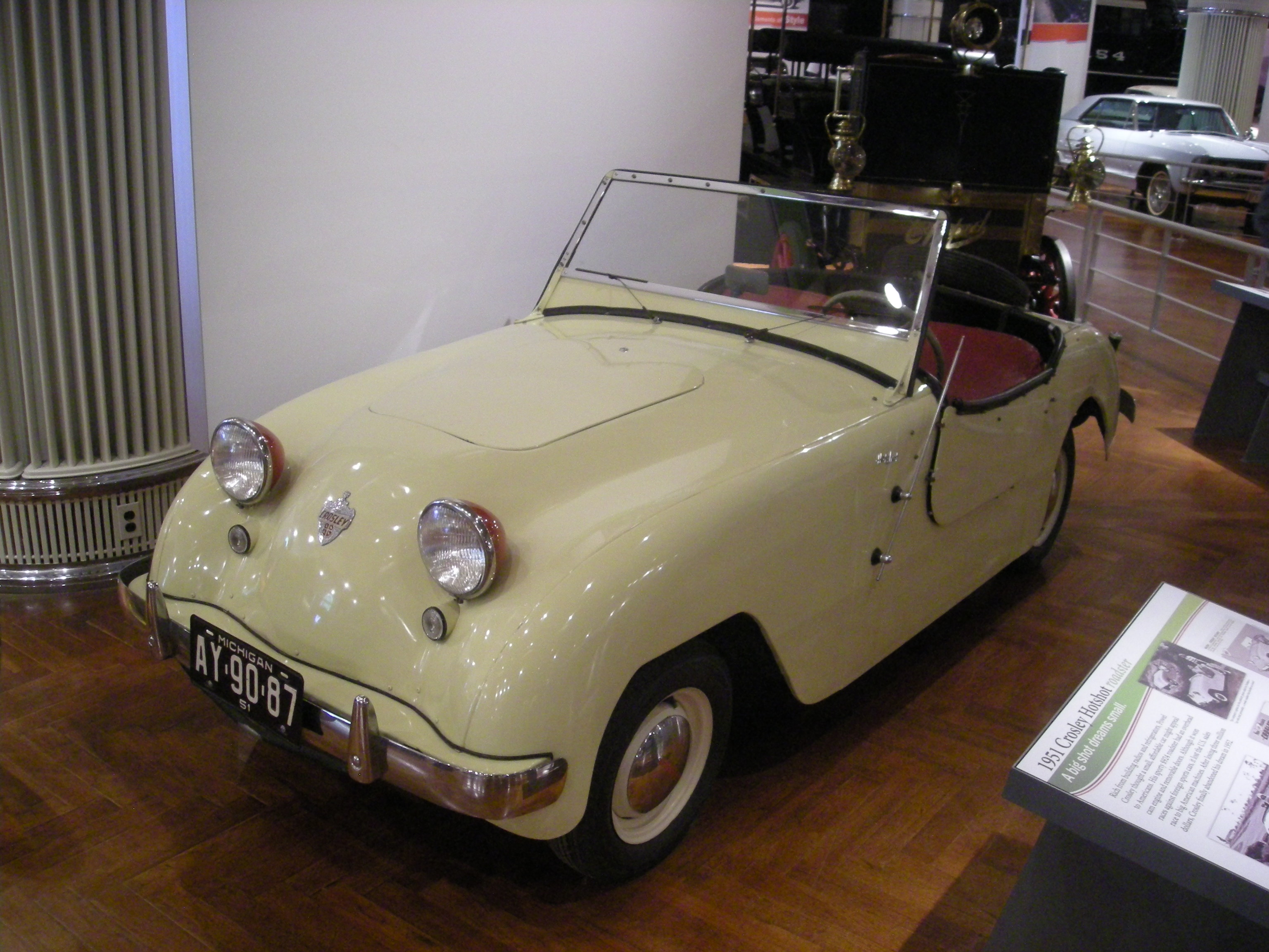 A 1951 Crosley Hotshot on display at the Henry Ford Museum in Dearborn, Michigan (United States).